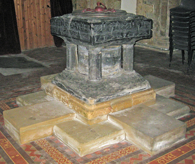 The Font, Church of St. Lawrence, Thornton Curtis. Black Tournai marble with carvings of animals and mythical beasts 274594 depicts a cat and dog.